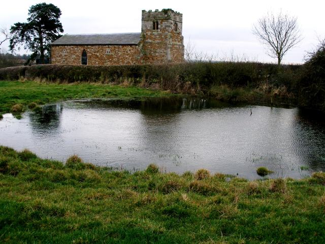 Pond and former parish church of St Giles at the site of the abandoned village of Great Stretton, Leicestershire